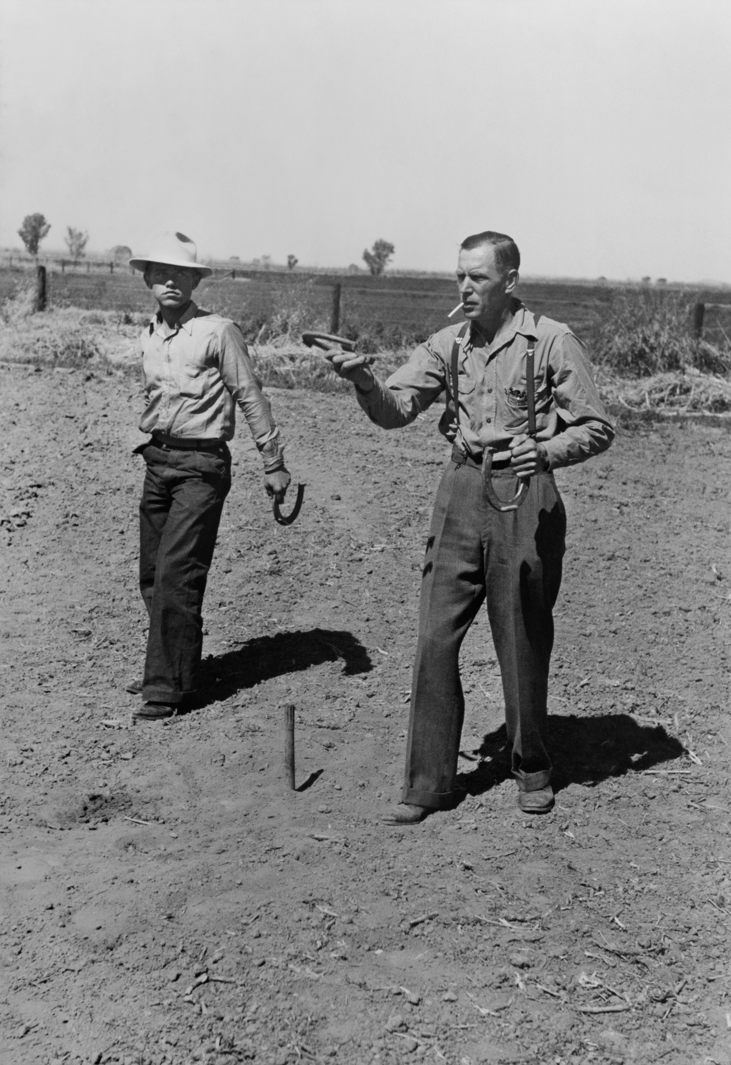 "Horseshoe pitching contest at the annual field day of the FSA (Farm Security Administration) farmworkers community, Yuma, Arizona". B&W film copy negative of print (negative: nitrate; 35 mm).